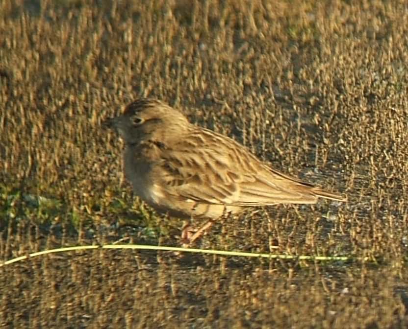 Calandrella brachydactyla, Long Nanny, Northumberland, UK